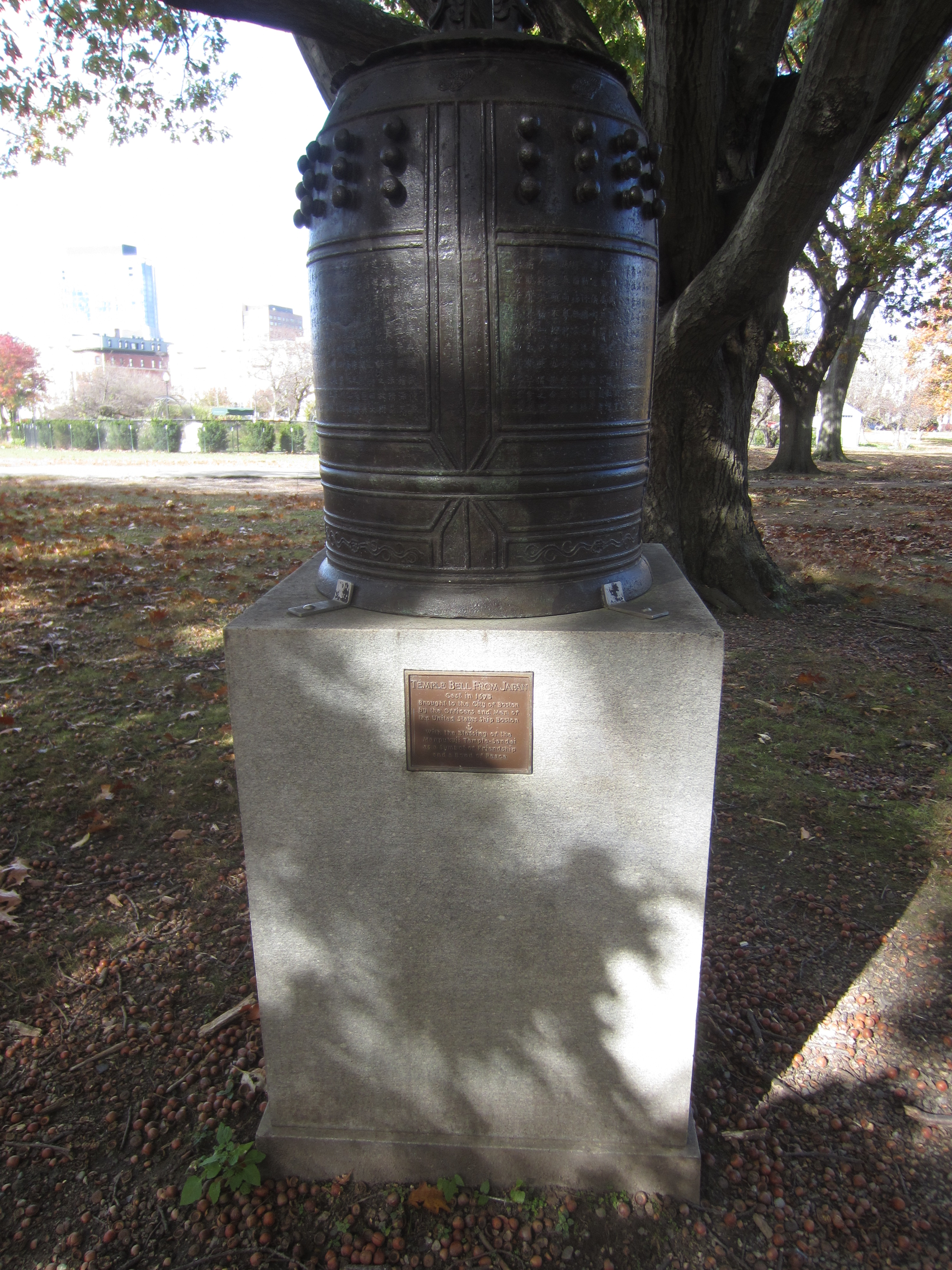 Boston (2019)